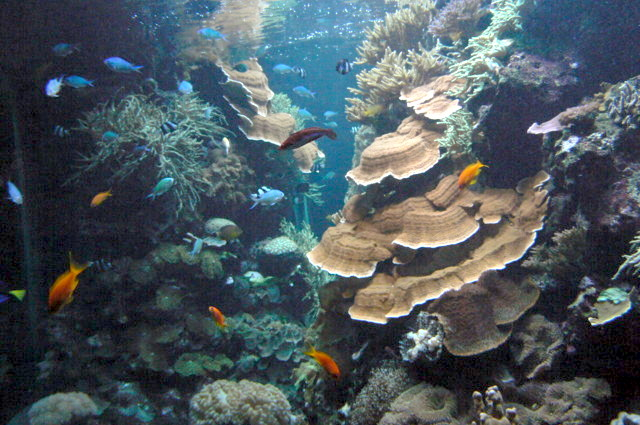 Aquarium Berlin. Germany Reef-Aquarium Photo:User:Haplochromis